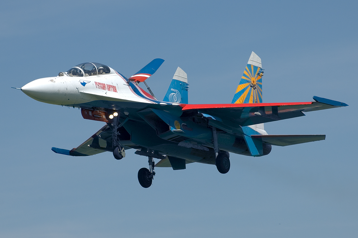 Su-27 from Russian Knights aerobatic team